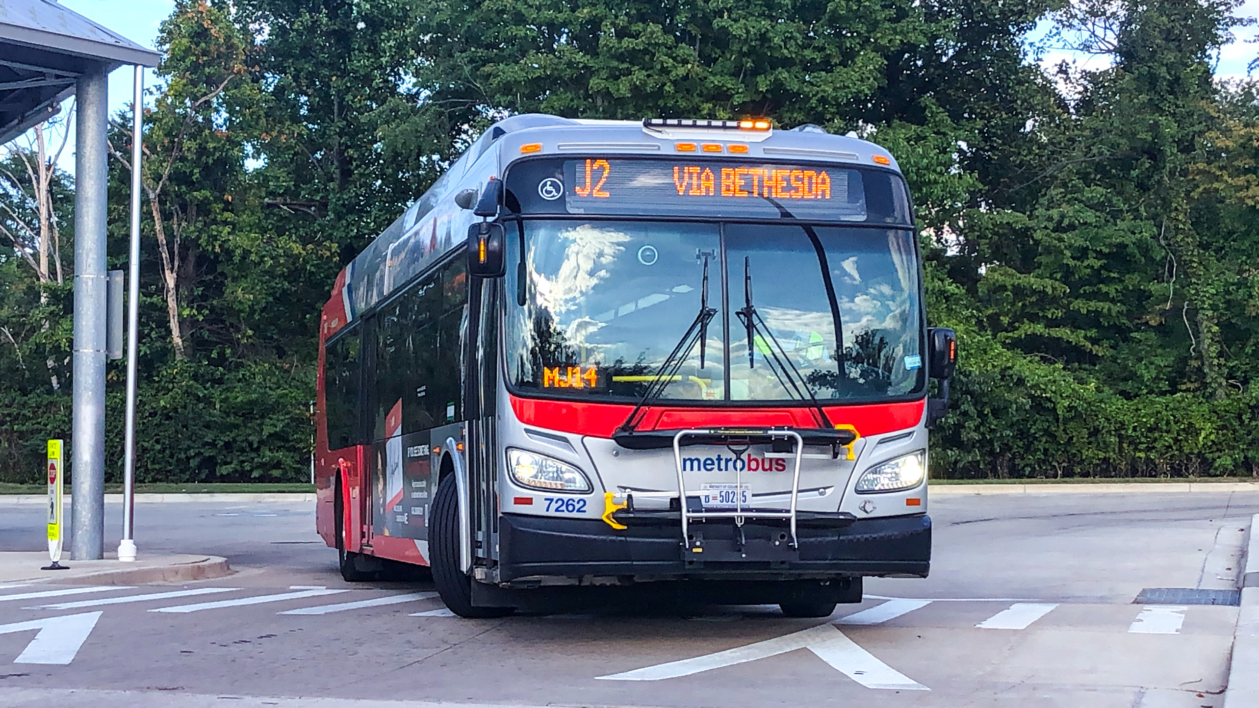 WMATA 2013 New Flyer XDE40 7262 on Route J2 At Montgomery Mall Transit Center